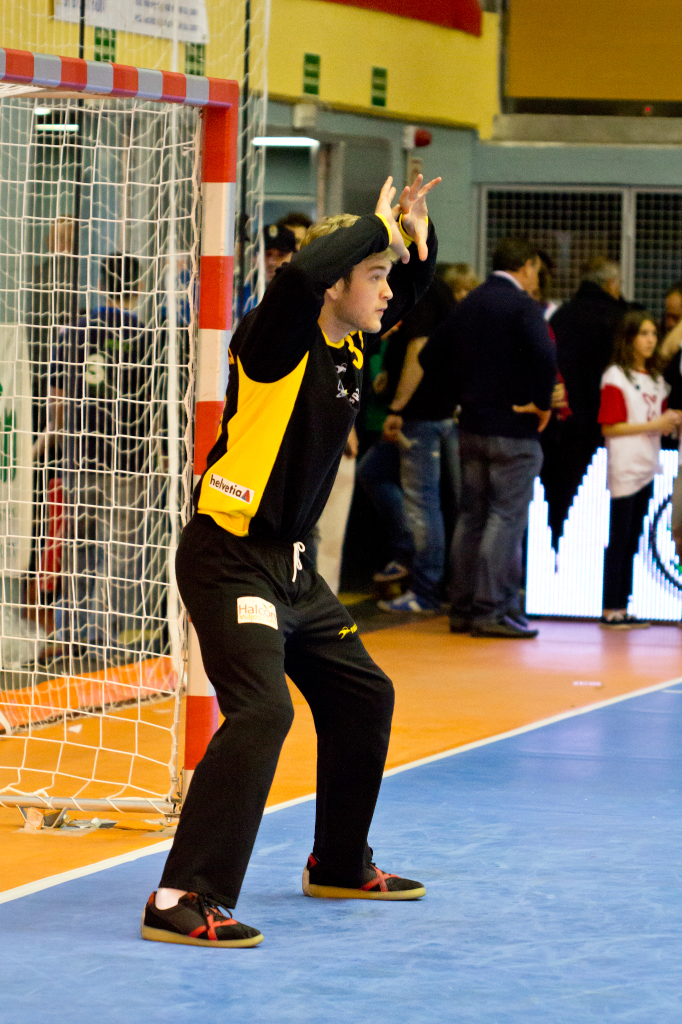 Spain Handball All Star Game 2013, held in San Sebastián de los Reyes, Madrid, Spain.